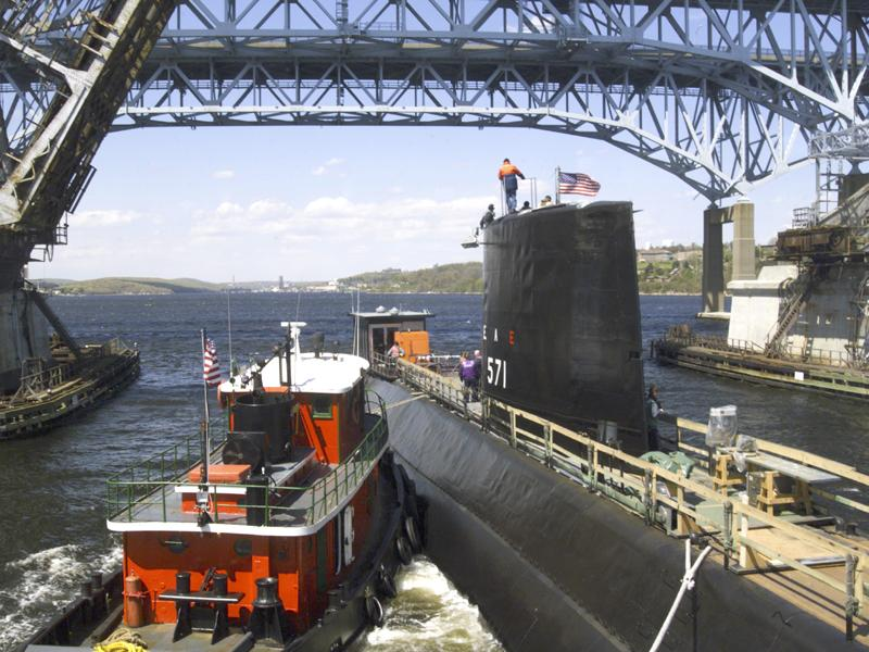 Groton, Conn., May 8, 2002 — Nautilus (SSN 571), the world's first nuclear powered submarine, leaves the Electric Boat Shipyard in Groton en route Naval Submarine Base New London. Nautilus underwent a five-month preservation at a cost of approximately $4.7 million. On Jan. 17, 1955, USS Nautilus put to sea for the first time and signaled her historic message "Underway on nuclear power." She steamed submerged 1,300 miles from New London to San Juan, Puerto Rico, in just 84 hours. The success of Nautilus ensured the future of nuclear power in the Navy. Now a museum, Nautilus is expected to re-open to the public at Groton's Submarine Force Library and Museum by Armed Forces Day. The historic ship attracts some 250,000 visitors annually. U.S. Navy photo by Nicole Hawley.